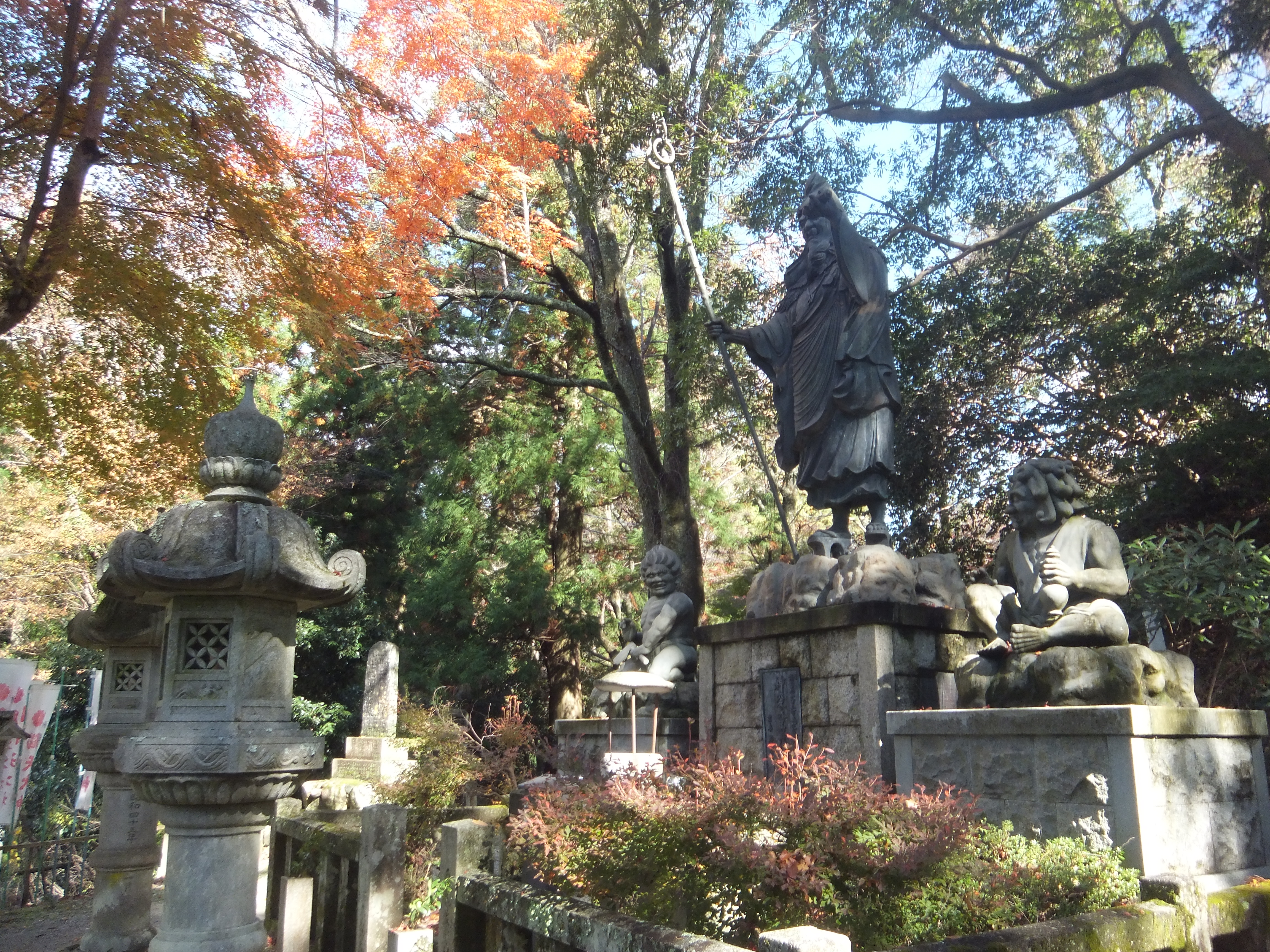 En no Gyōja (En no Ozunu), mystic Japanese founder of Shugendō. Statue in the Kimpusen Temple (Kimpusen-ji) in Yoshino (Nara Prefecture).